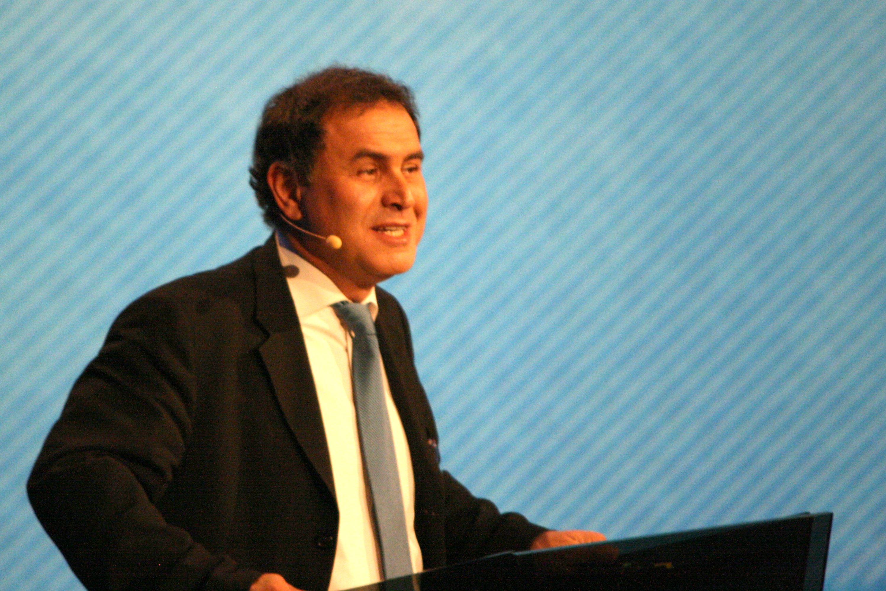 Nouriel Roubini, Turkish economist, professor of economics at the Stern School of Business, New York University. From the Confederation of Norwegian Enterprise conference, 2009.